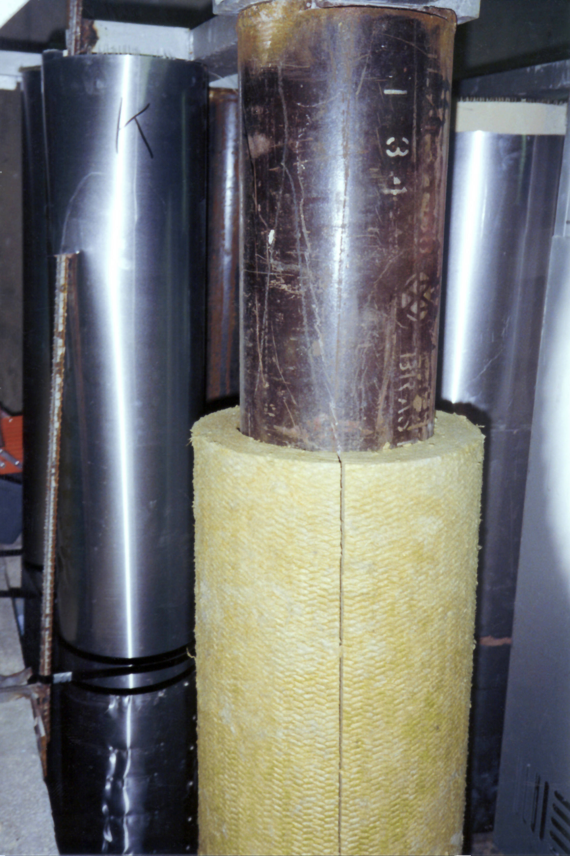 Rockwool pipe insulation being applied to a steel pipe in preparation for a fire test for a firestop system using firestop mortar. The subsequent test achieved a 2 hour rating.